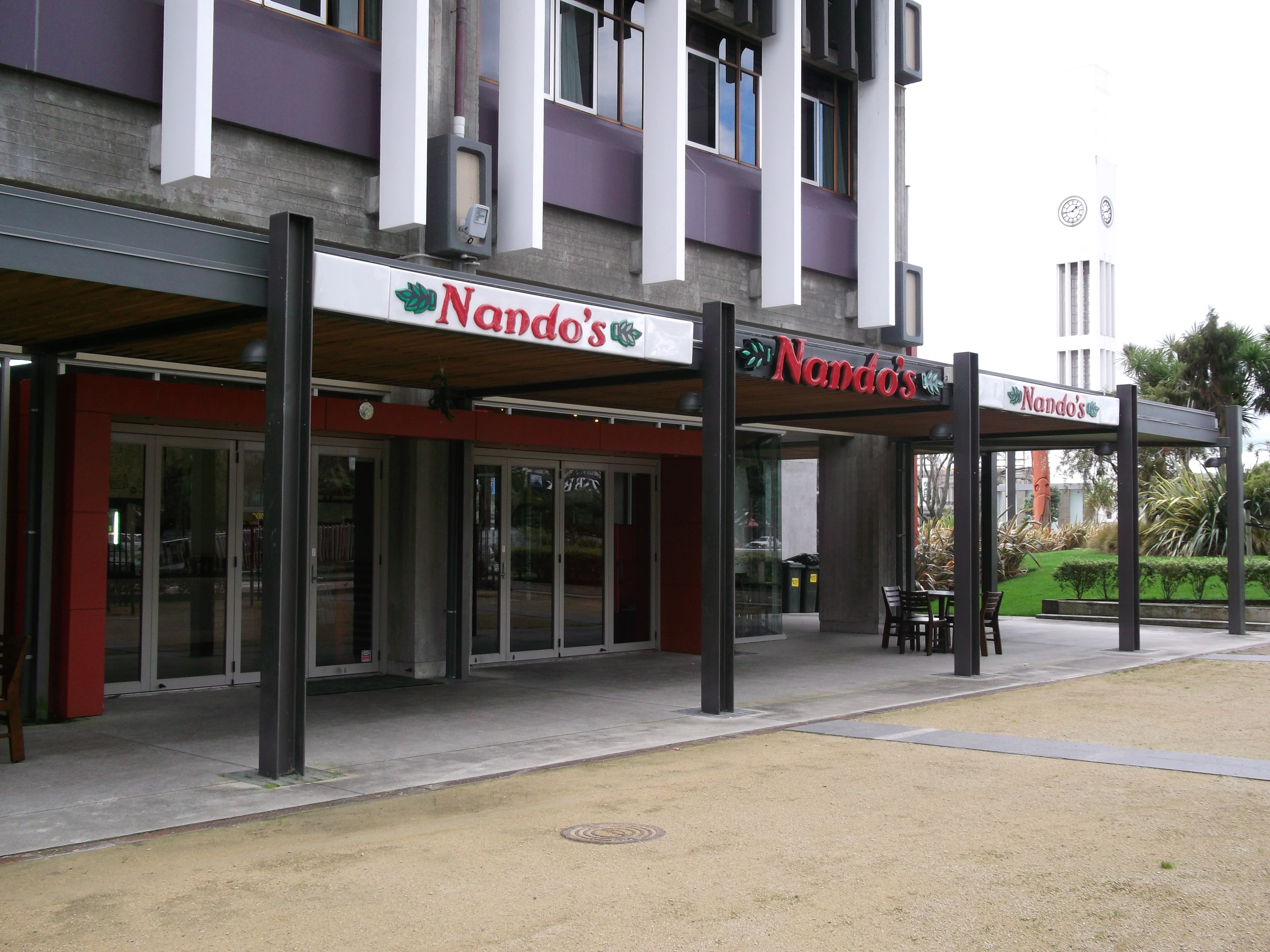 Nandos Resturant in Palmerston North, New Zealand. (I understand that the resturant has closed since I took the photograph.)